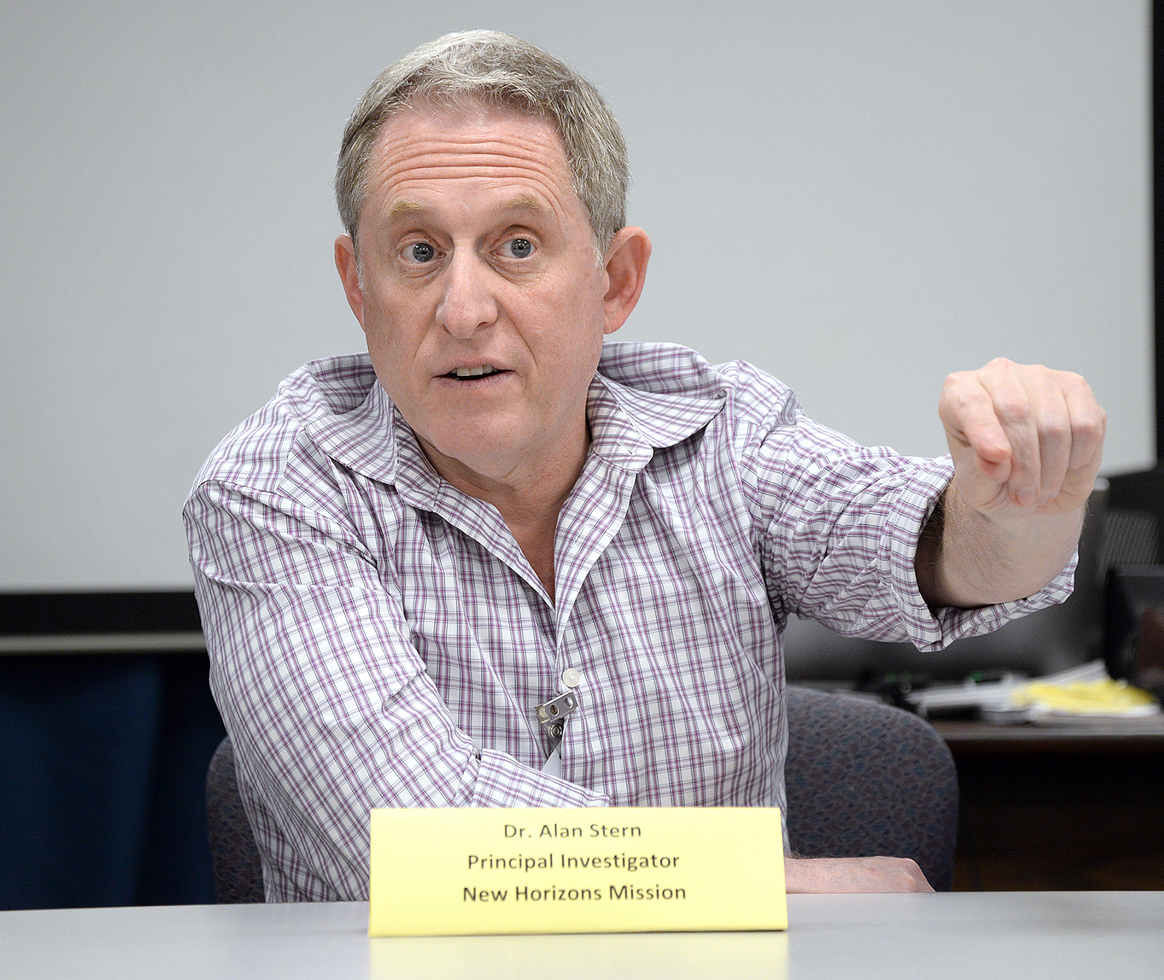 NASA scientists visited us at the Embassy to make a presentation of their projects and tell us about the experience of working for the North American aerospace agency. Dante Laureta, Heather Enos and Uruguayan Javier Licandro presented the OSIRIS-REX project, Alan Stern did the same with New Horizons Mission and Carol Raymond presented the unmanned DAWN Mission. The group traveled to Uruguay to participate in the conference Asteroids, Comets and Meteors 2017 that is being held for the first time in the country. [U.S. Embassy photo: Gonzalo García / Copyright info]